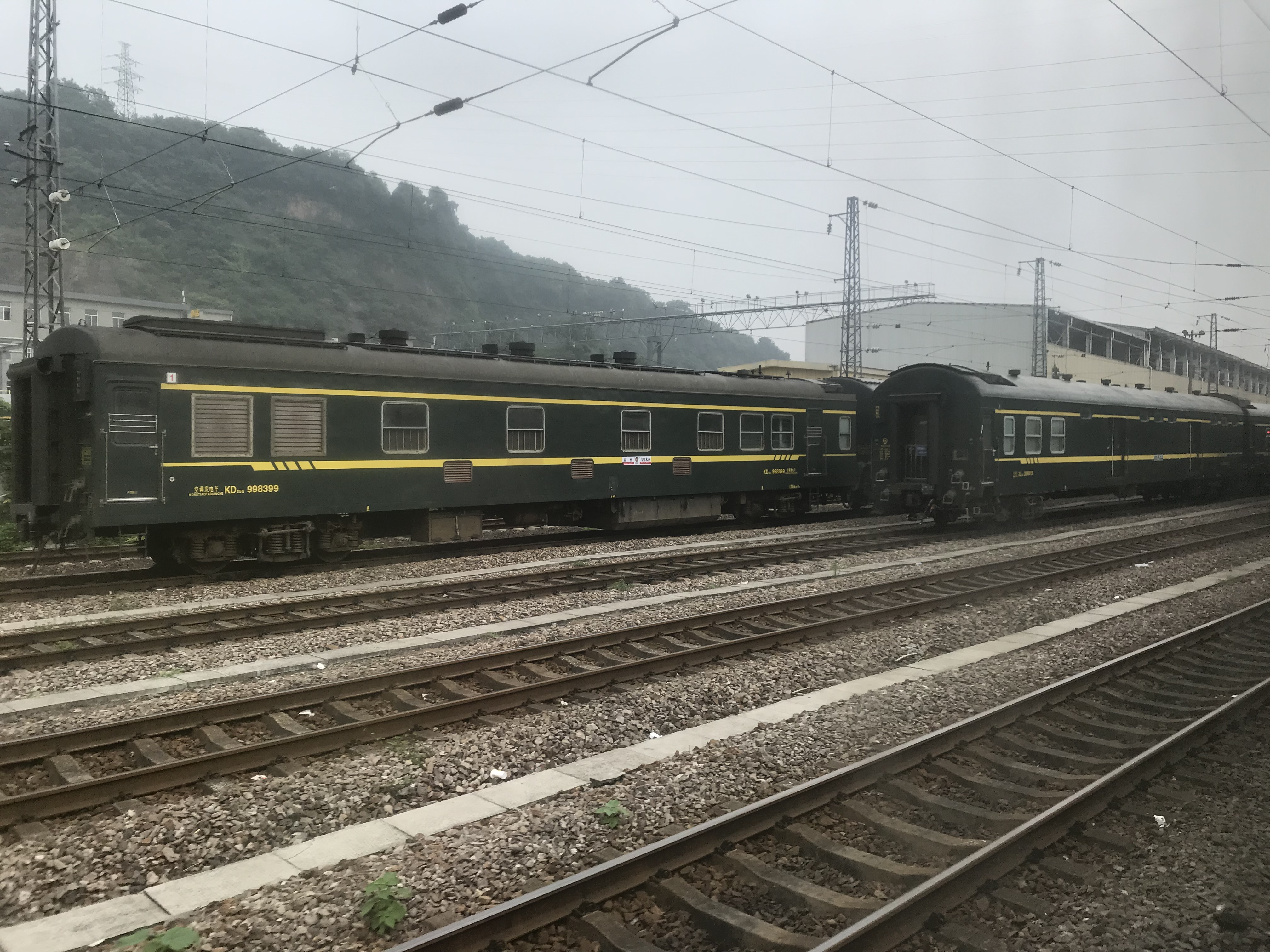 Didn't wait for it on the platform of Hangzhou.